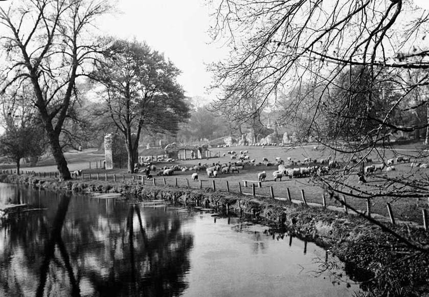 View of the grounds of the Abbey of Bury St Edmunds, Suffolk, England, showing abbey ruins with sheep grazing. Courtesy of the Spanton Jarman collection, Bury St Edmunds Past and Present Society, Bury St Edmunds, Suffolk, England